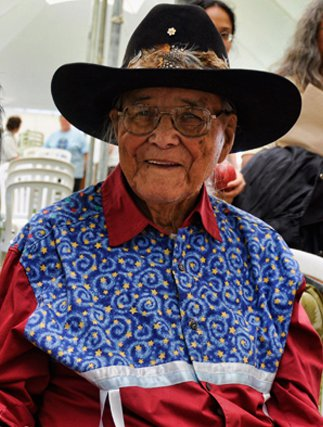 William Commanda, Algonquin Elder 1913-2011. Band Chief of the Kitigàn-zìbì Anishinàbeg First Nation from 1951 to 1970, officer of the Order of Canada, 2008.